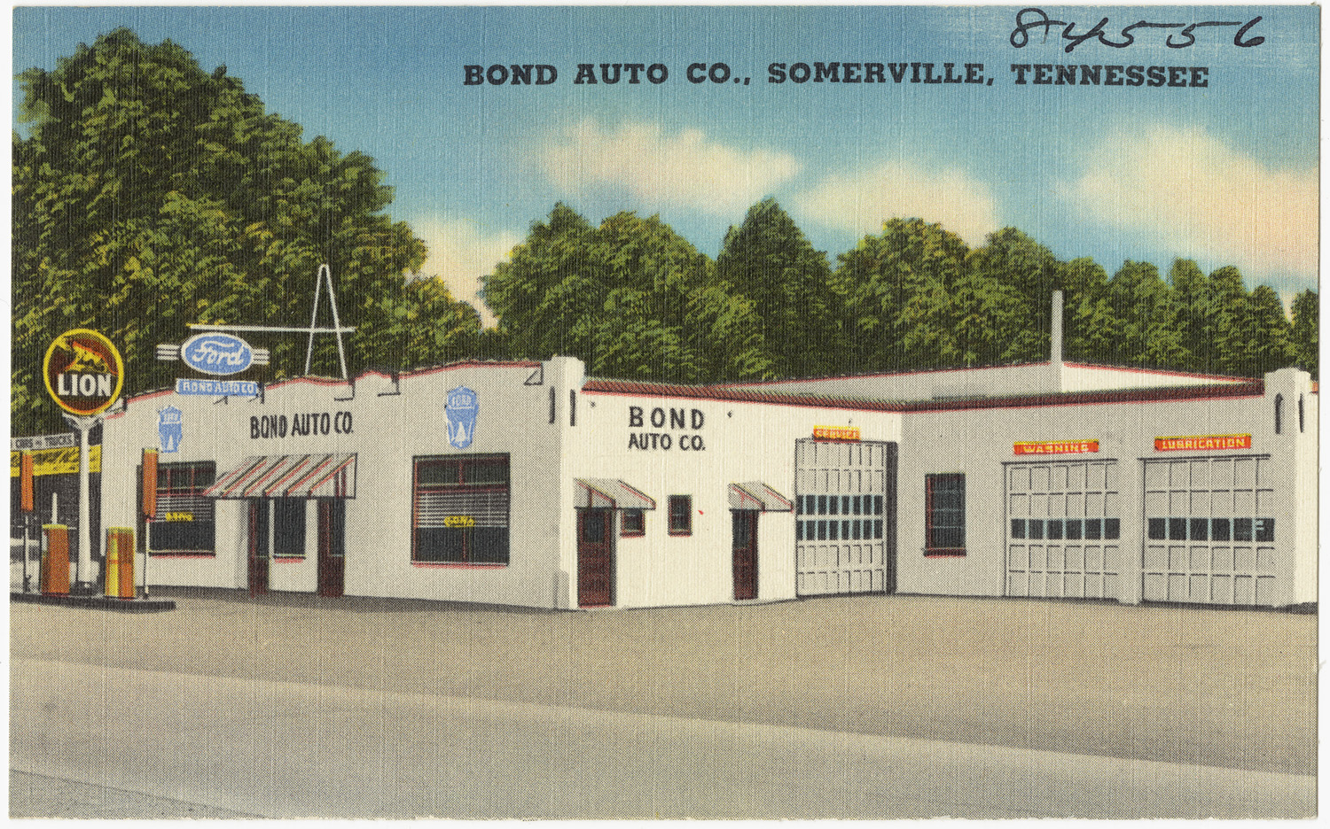 File name: 06_10_019723 Title: Bond Auto Co., Somerville, Tennessee Created/Published: Nationwide Specialty Co., Arlington, Texas Date issued: 1930 - 1945 (approximate) Physical description: 1 print (postcard) : linen texture, color ; 3 1/2 x 5 1/2 in. Genre: Postcards Subjects: Automobile service stations Notes: Title from item. Collection: The Tichnor Brothers Collection Location: Boston Public Library, Print Department Rights: No known restrictions